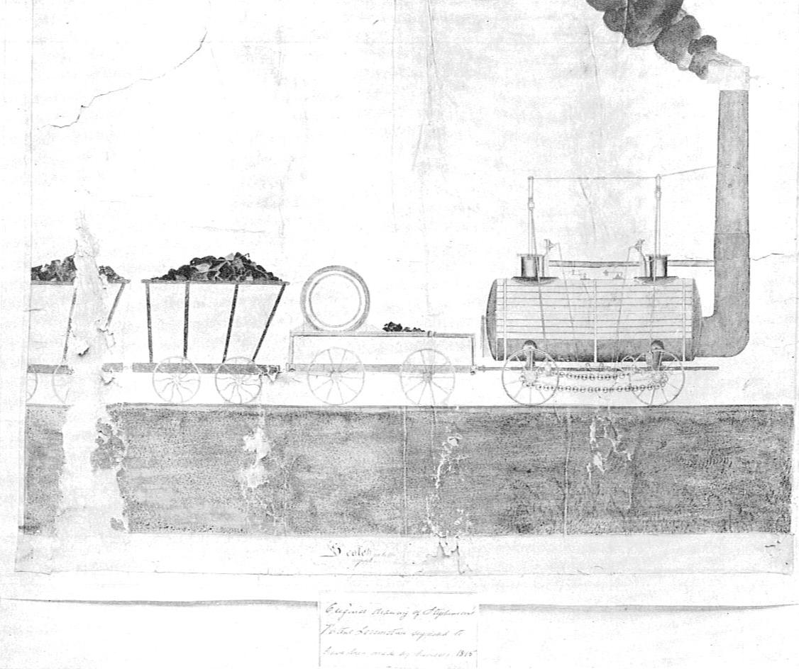 Stephenson's Killingworth locomotive, 1815